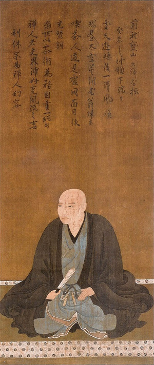 Sen no Rikyū, Masaki Art Museum, Tadaoka, Osaka, Japan